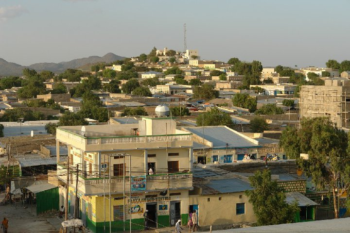 Ahmad Gurey section of Borama